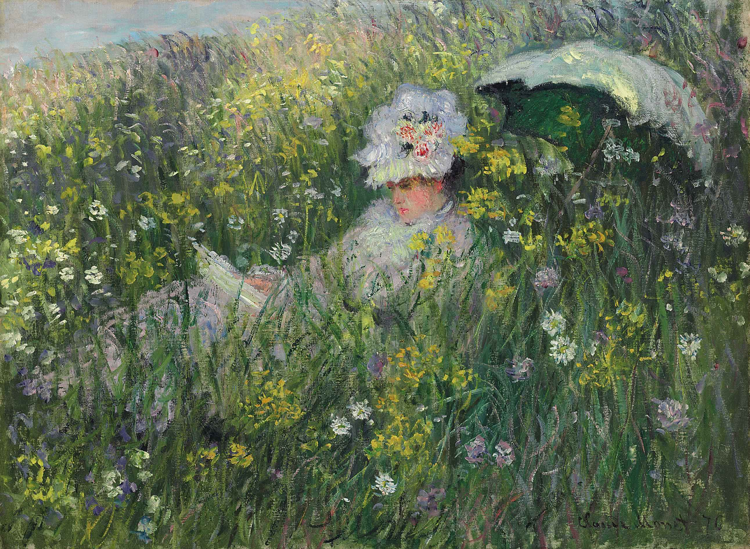 painting of the French artist's wife, Camille, reading in a meadow full of flowers. It was first exhibited in Paris in 1877.